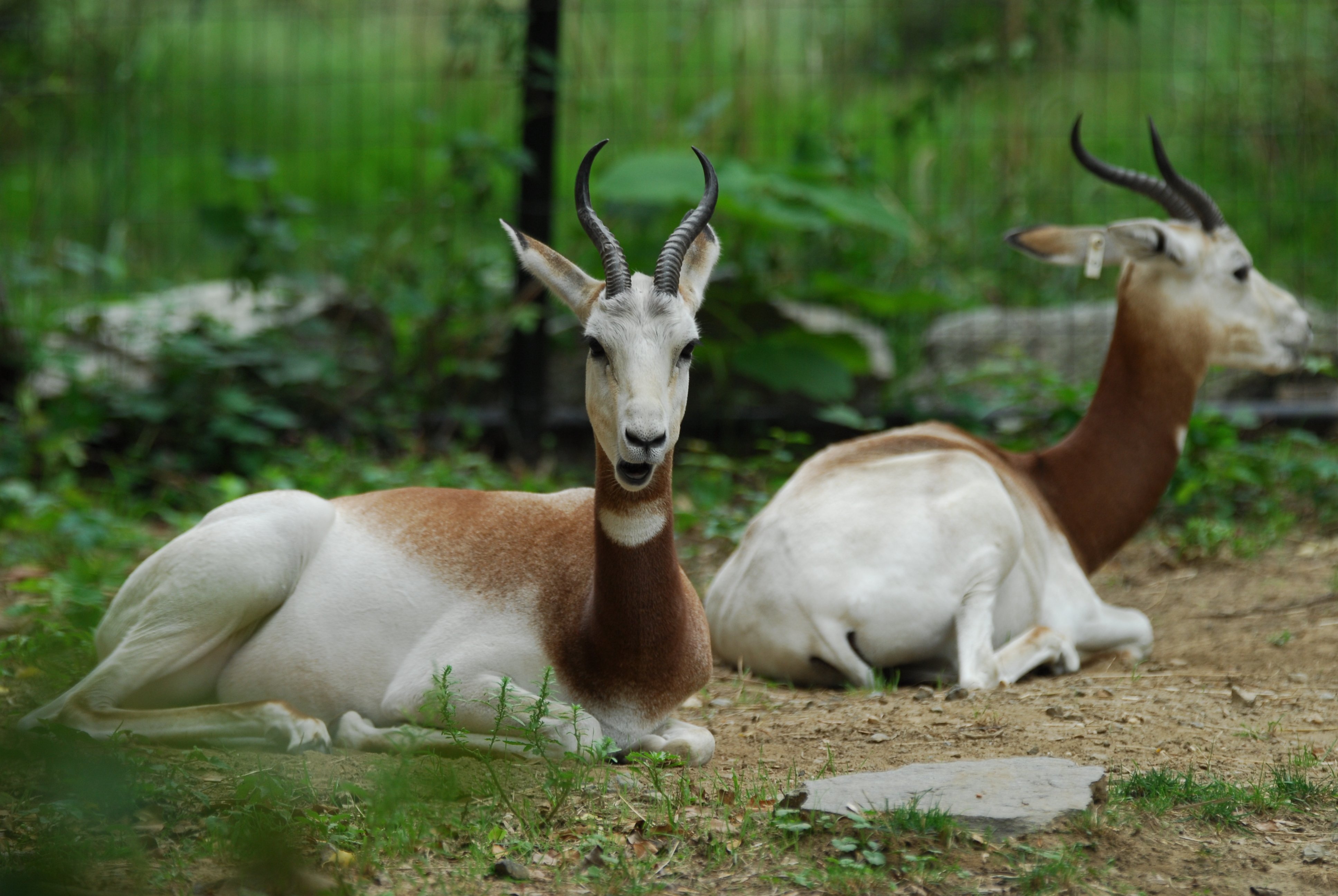 Gazelles lying down, at the National Zoo in Washington, D.C.